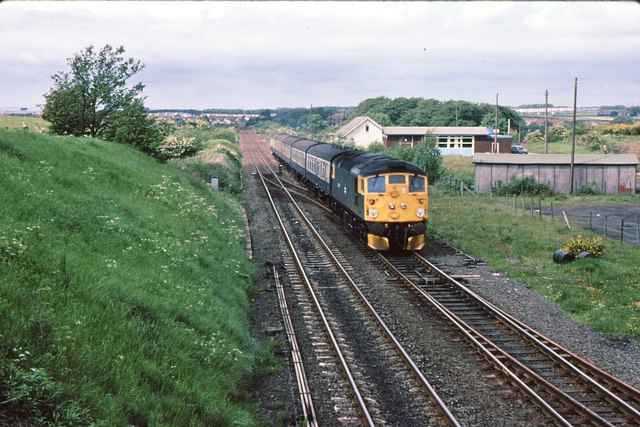 Hurlford railway station Original description: Hurlford station site 1983 Taken from Hurlford signalbox, nothing remained by 1983 to show where the station had been. The line diverging to the right served bonded warehouses asn received one 80 tonne capacity rail wagon most weekdays for exports to continental Europe.